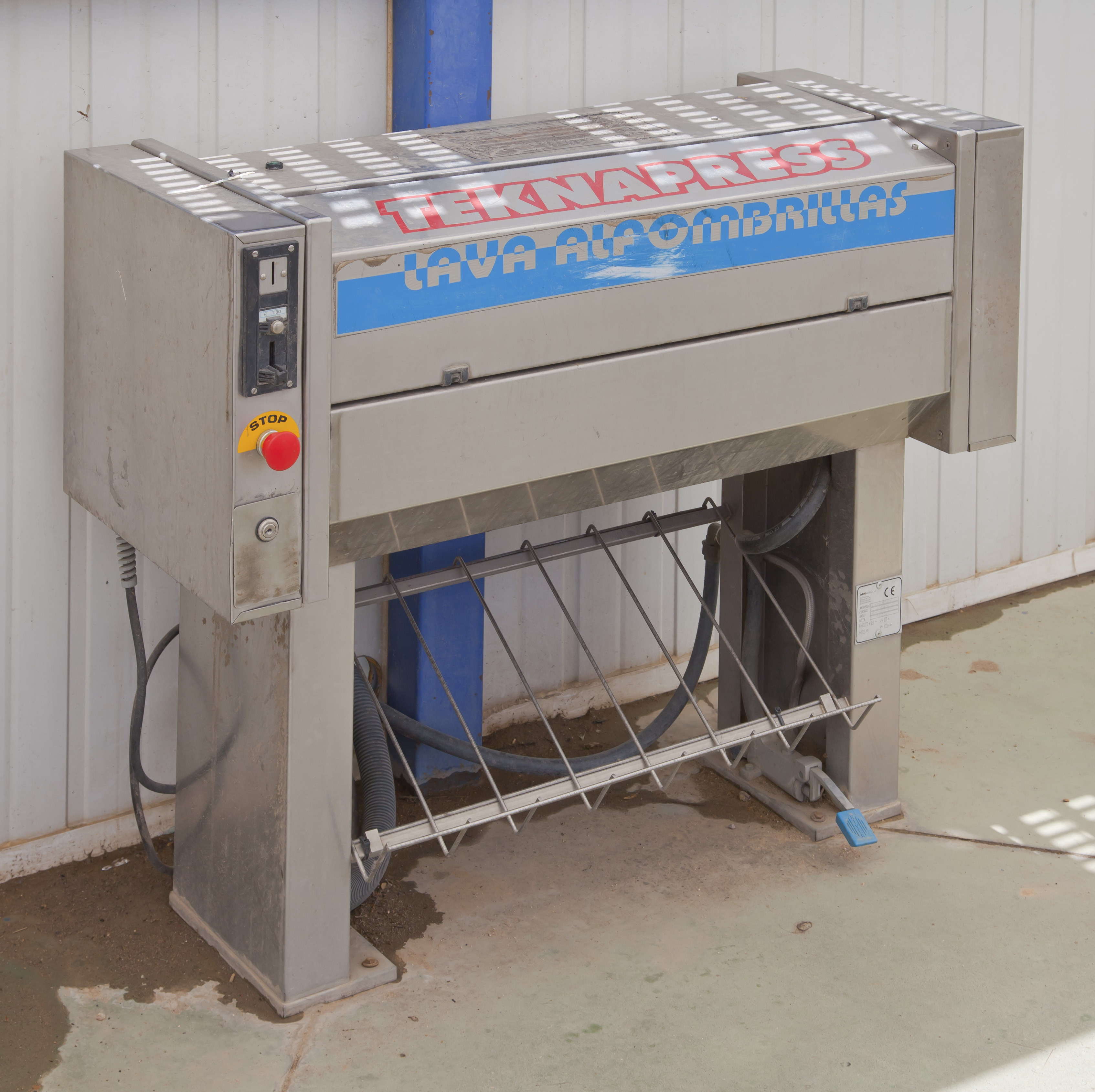 Car foot mat cleaner, Ágreda, Spain